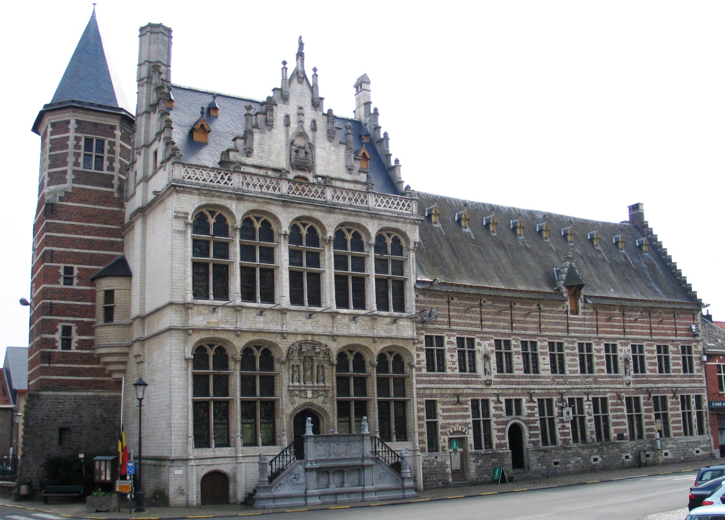 Town Hall (left) and Cloth Hall (right), Zoutleeuw, Belgium